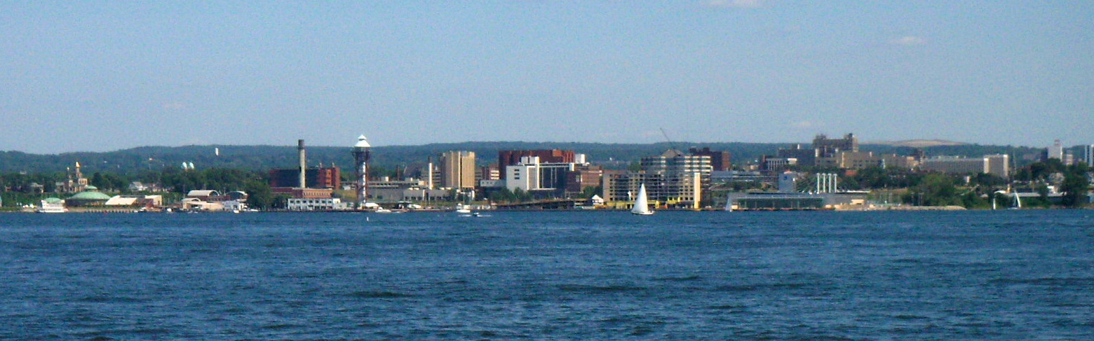 This photograph of the skyline of Erie, Pennsylvania as seen from Presque Isle was taken by Pat Noble (self) on 24 June 2007.